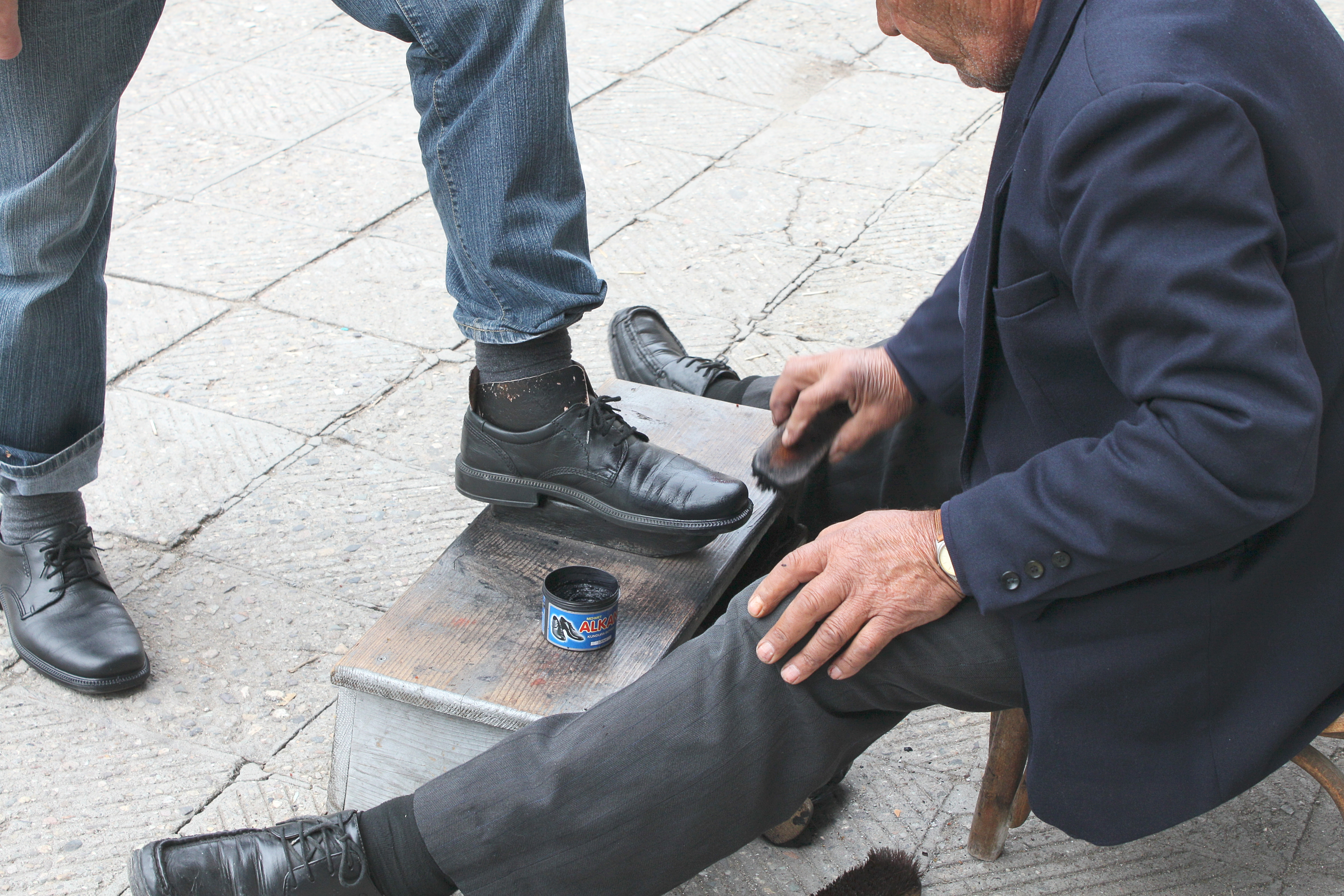 Shoeshining in Bulgaria